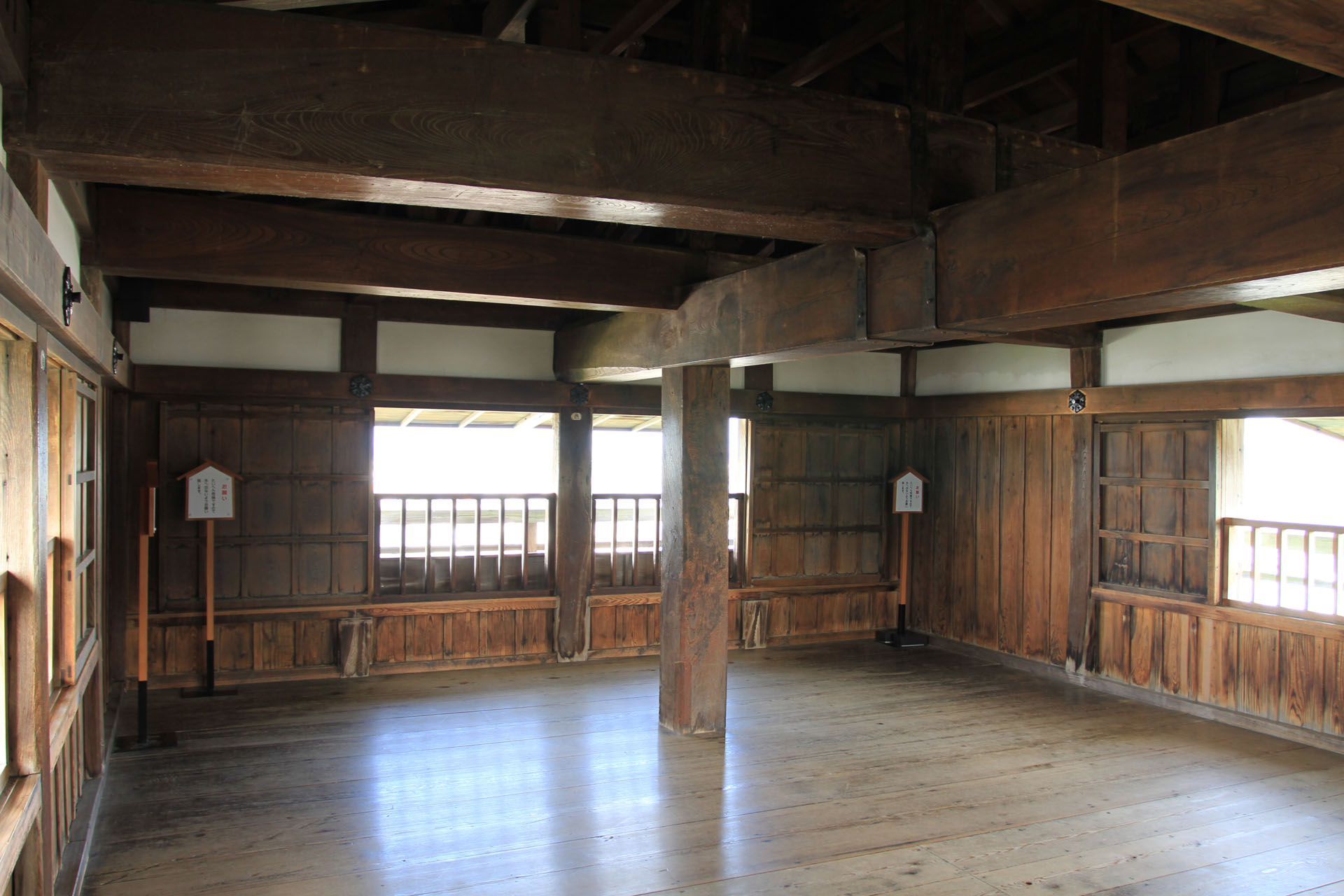 Maruoka Castle